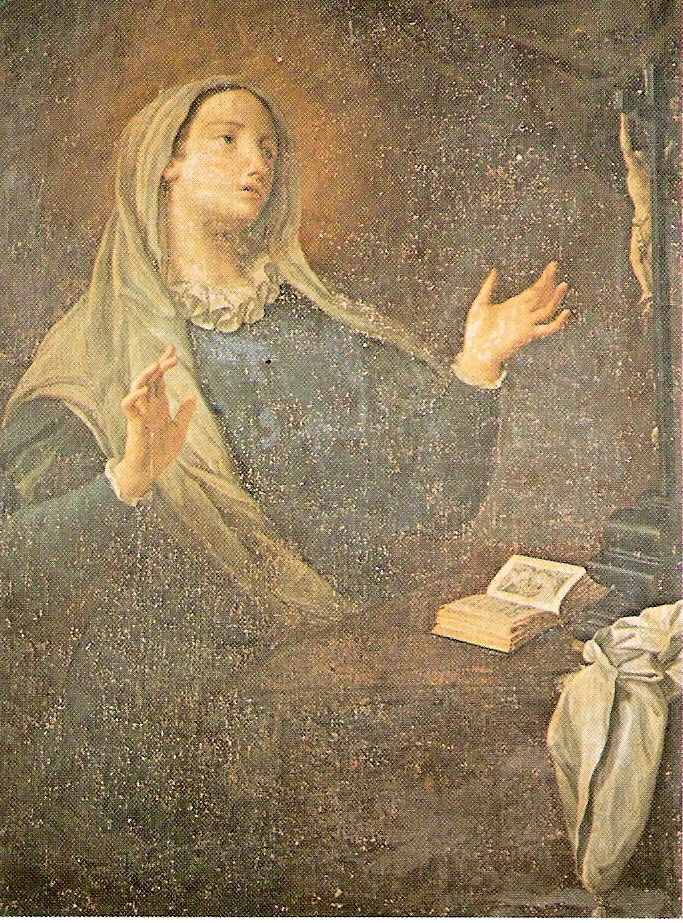 Painting depicting Saint Catherine of Genoa